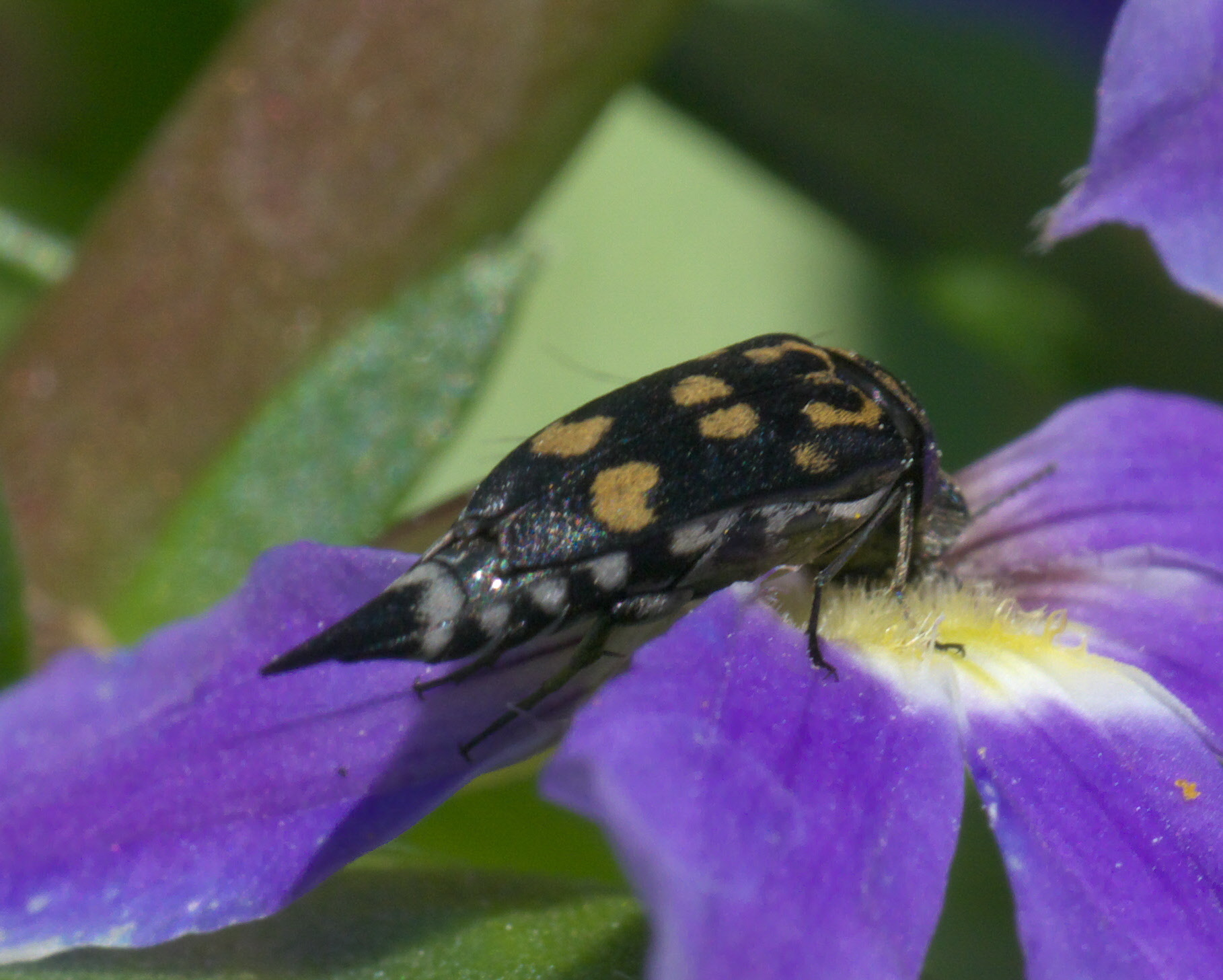 Hoshihananomia octopunctata, Family: Tumbling Flower Beetles, ID Confidence: 87